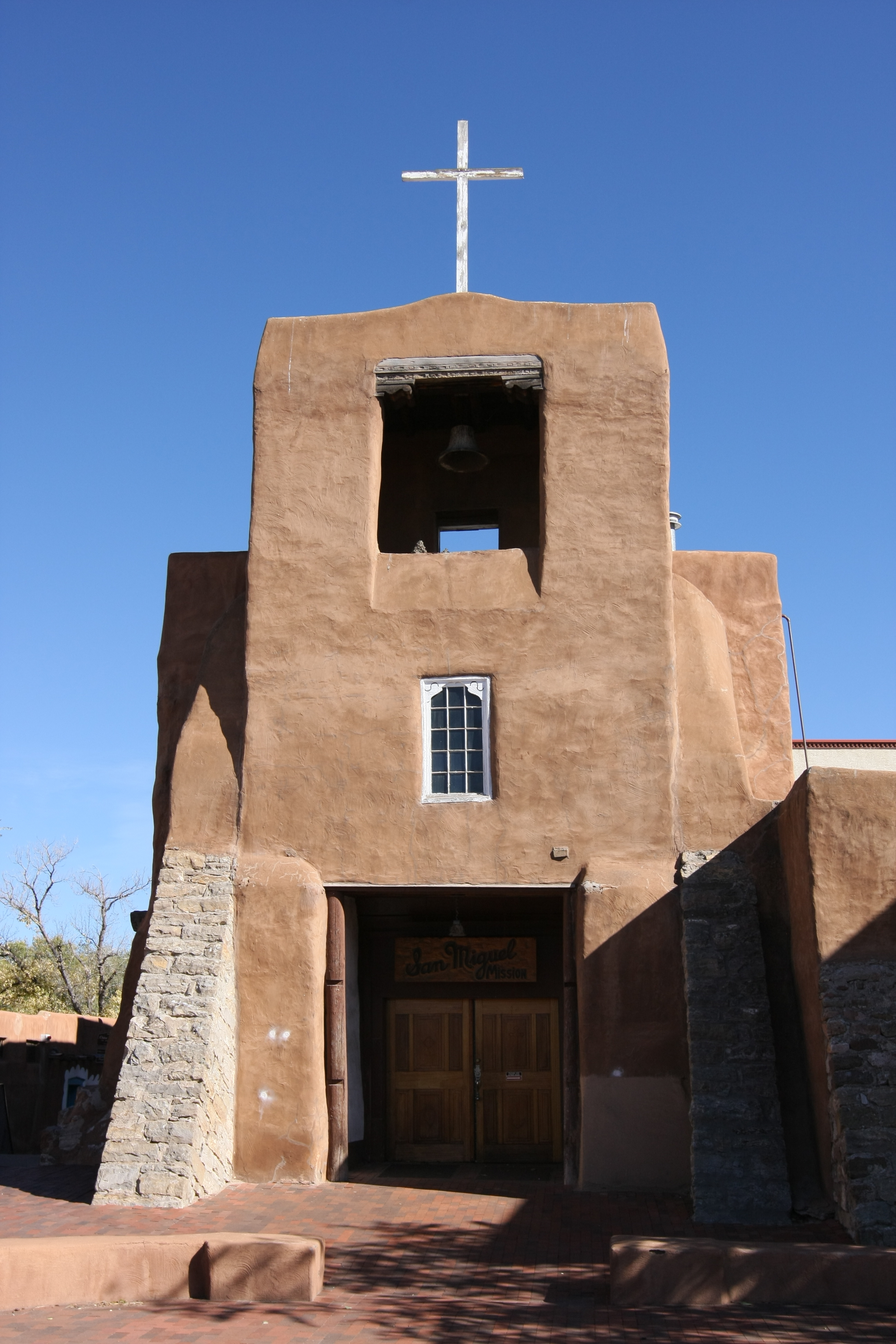 Built in 1610, this is the oldest church building in the USA. It's even open for tours.